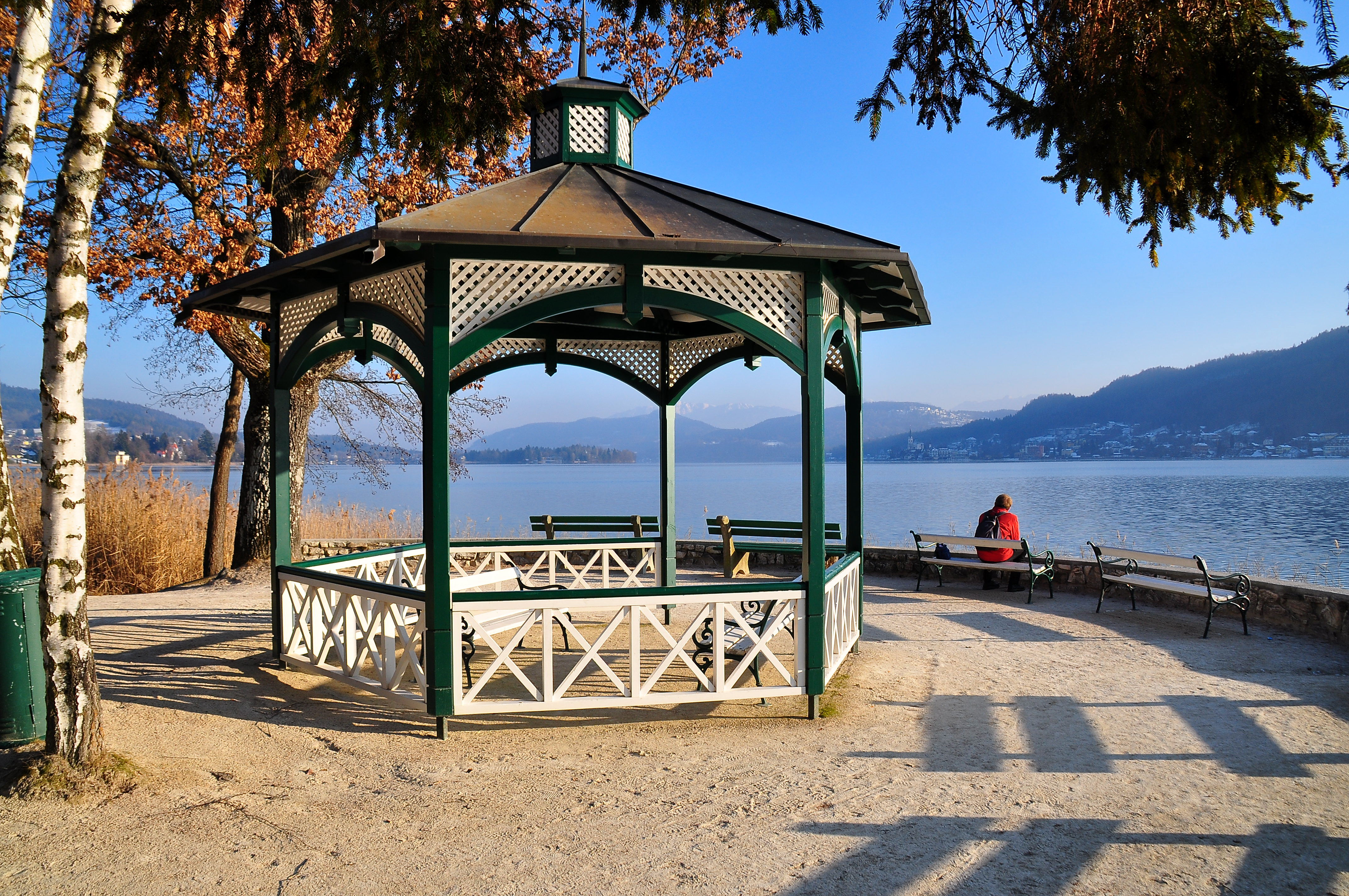 Gazebo on the peninsula of Poertschach on the Lake Woerth, district Klagenfurt Land, Carinthia, Austria